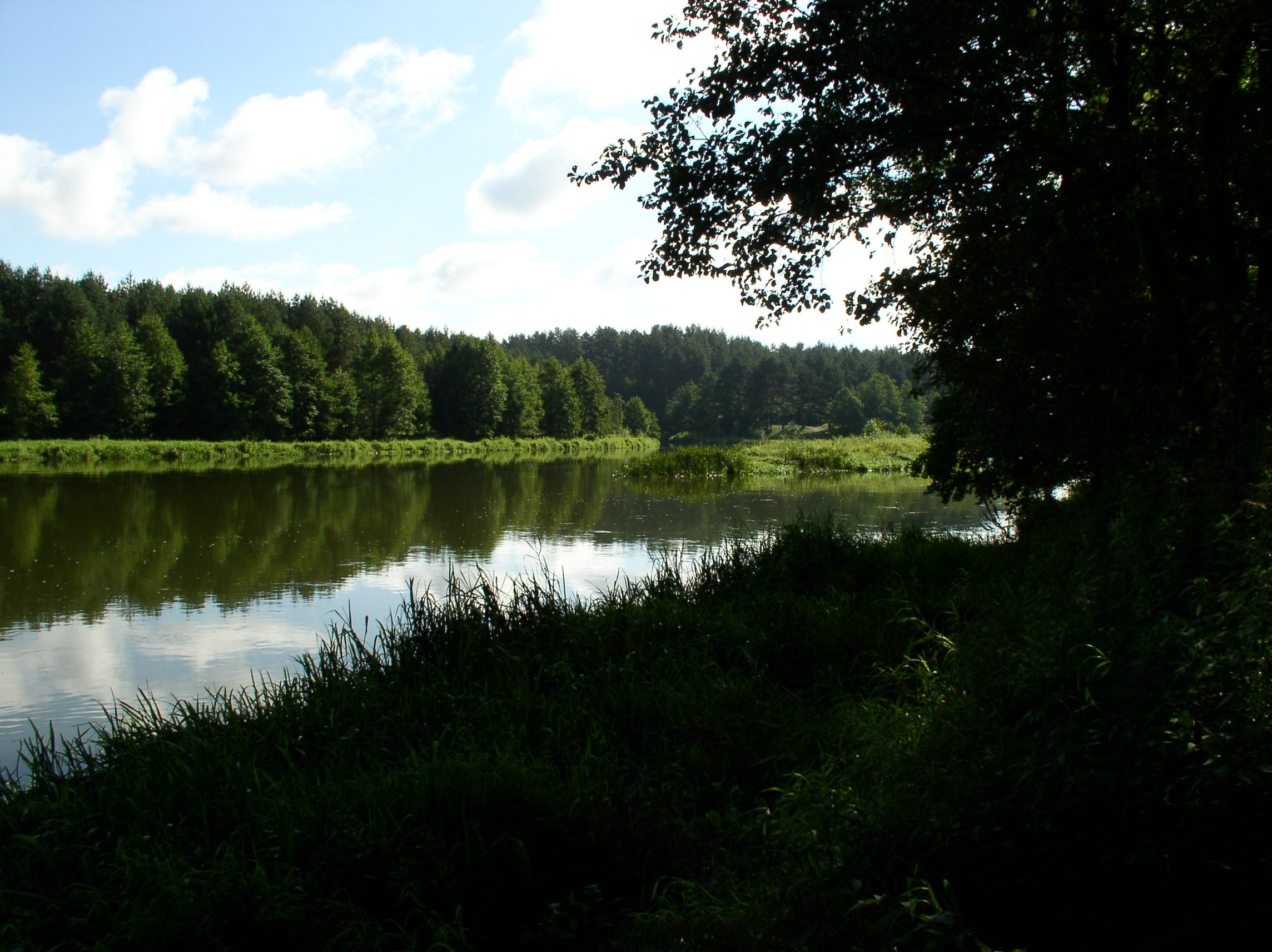 Junction of Viliya and Narach rivers, Belarus.